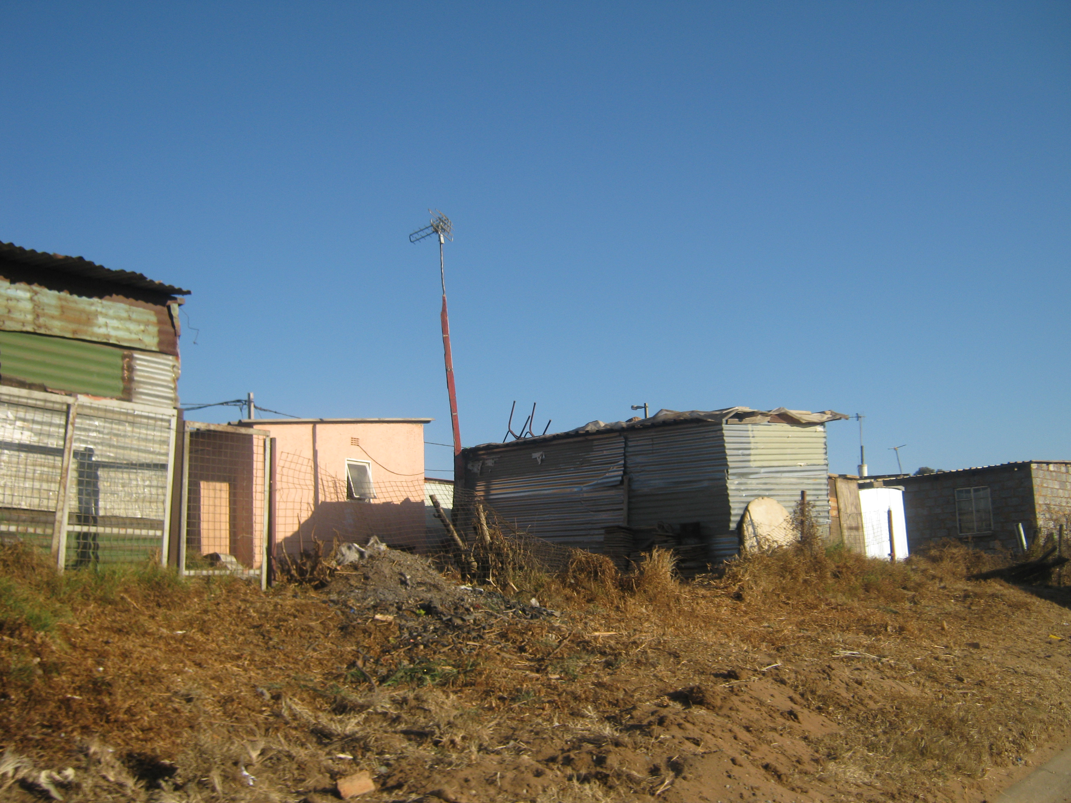 An informal settlement near Elsburg in Germiston.